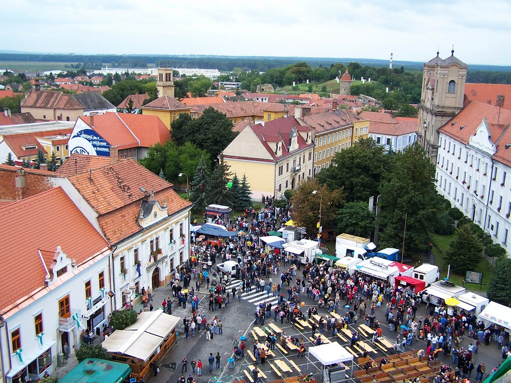 View from tower of church st michal during skalica days